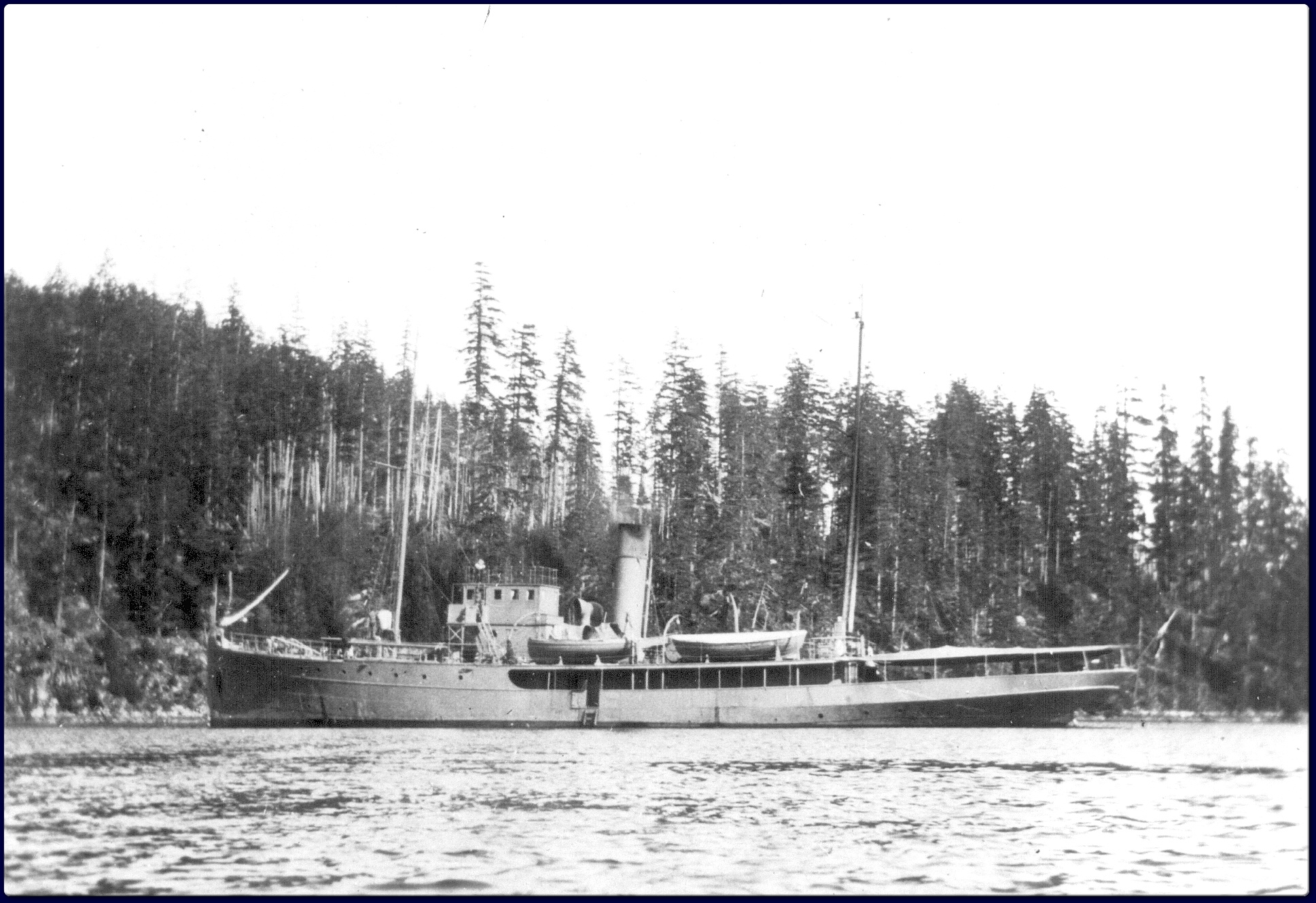 Canadian fisheries patrol vessel CGS Galiano. She served during the First World War as HMCS Galiano and was lost in October 1918.